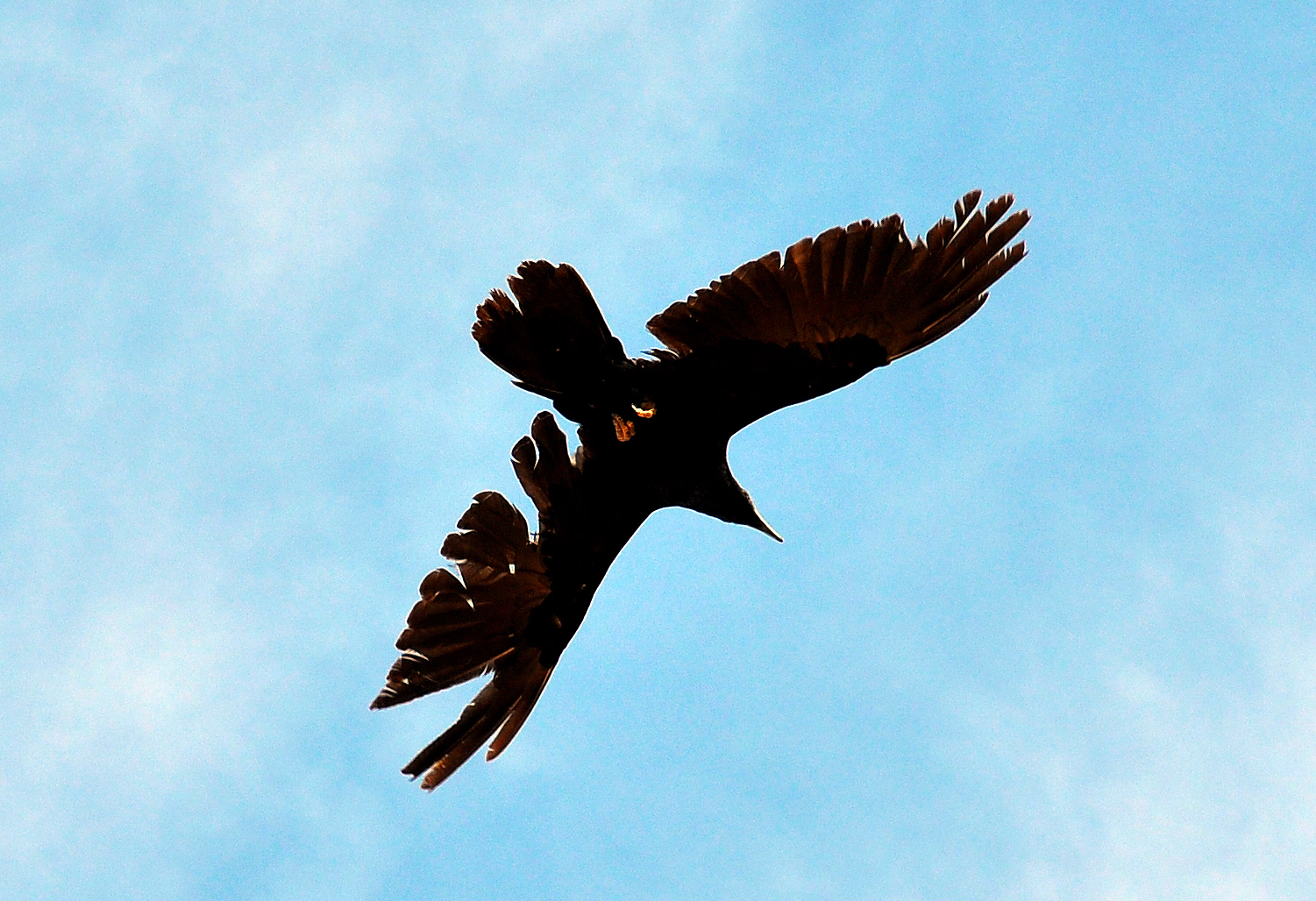 Ravaged wings of combative Raven, still allows him to fly with ease